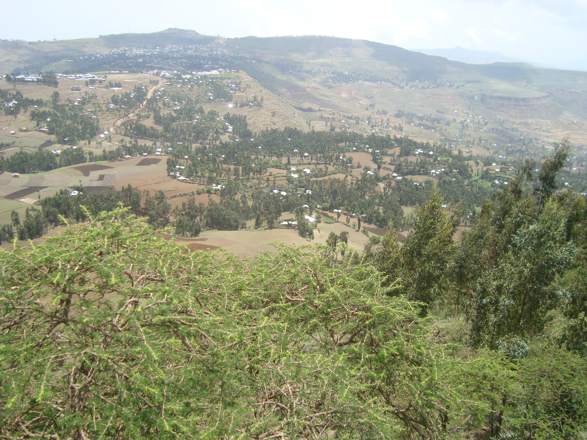 Panorama over Hagere Selam